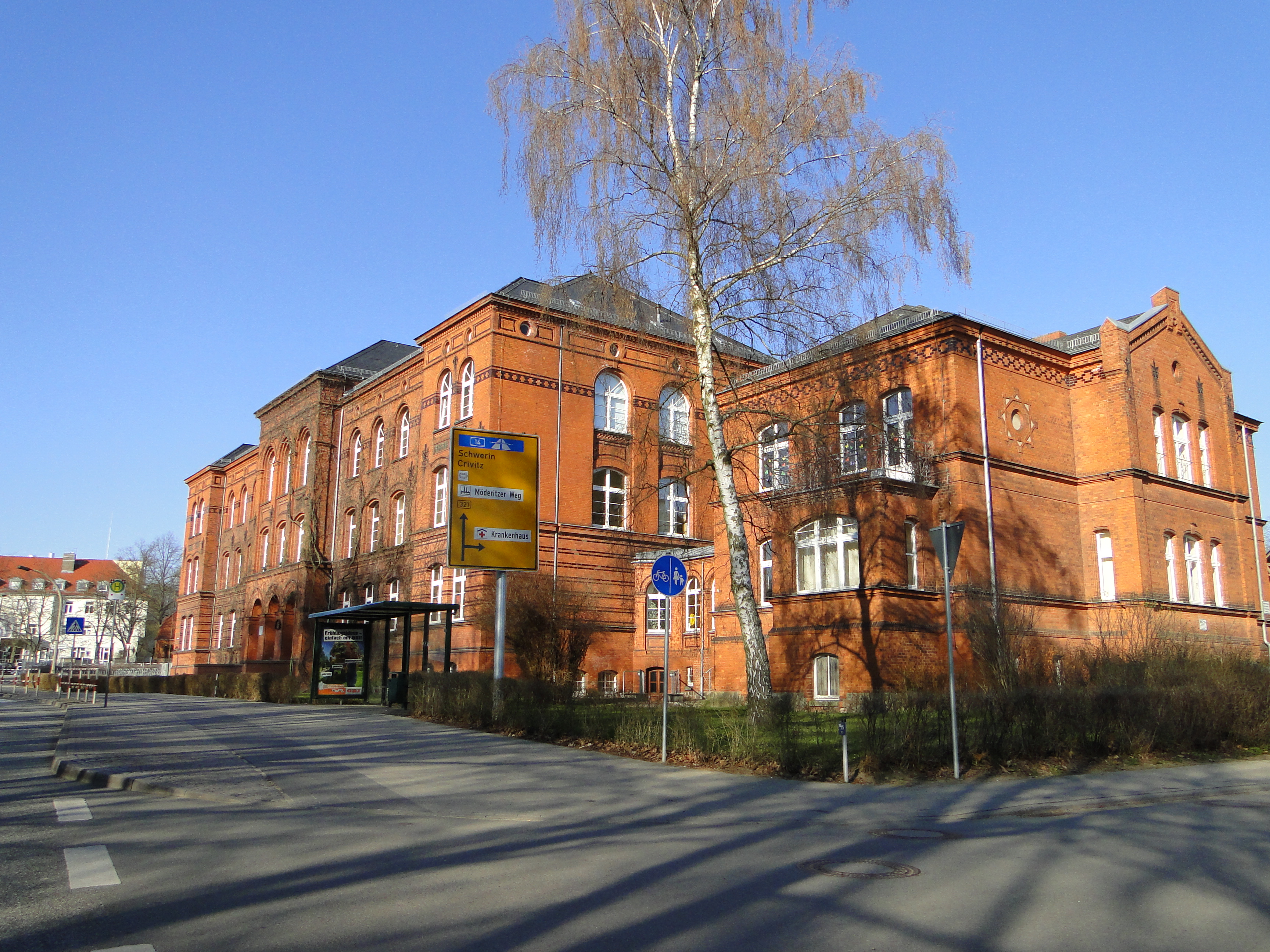 School building of Friedrich-Franz-Gymnasium in the street Wallallee in Parchim, district Ludwigslust-Parchim, Mecklenburg-Vorpommern, Germany